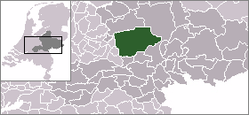 Location of Ede